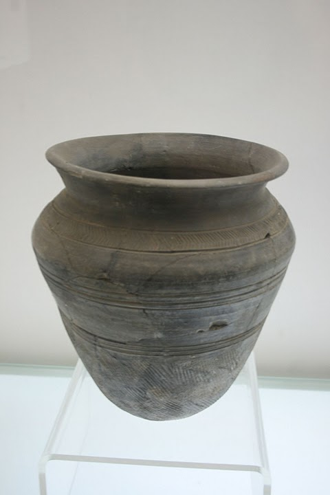 Xia Dynasty pottery zun